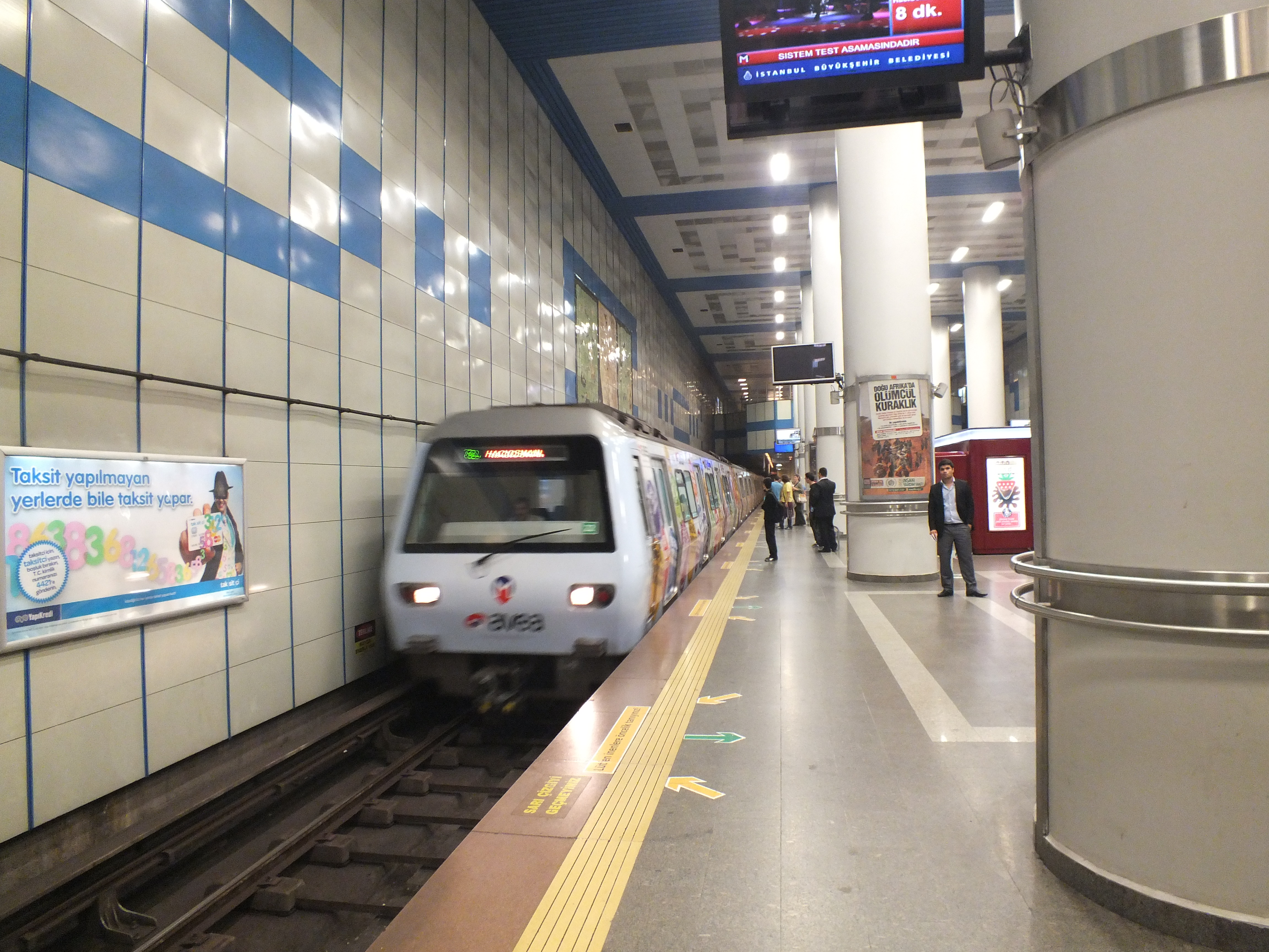 A Northbound M2 subway train arriving at Levent station.